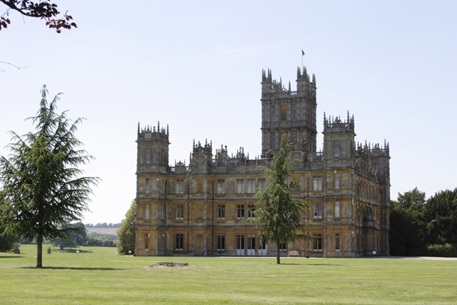 Highclere Castle, Highclere, Hampshire. Highclere Castle gardens with historic Lebanon Cedar (Cedrus libani) trees.